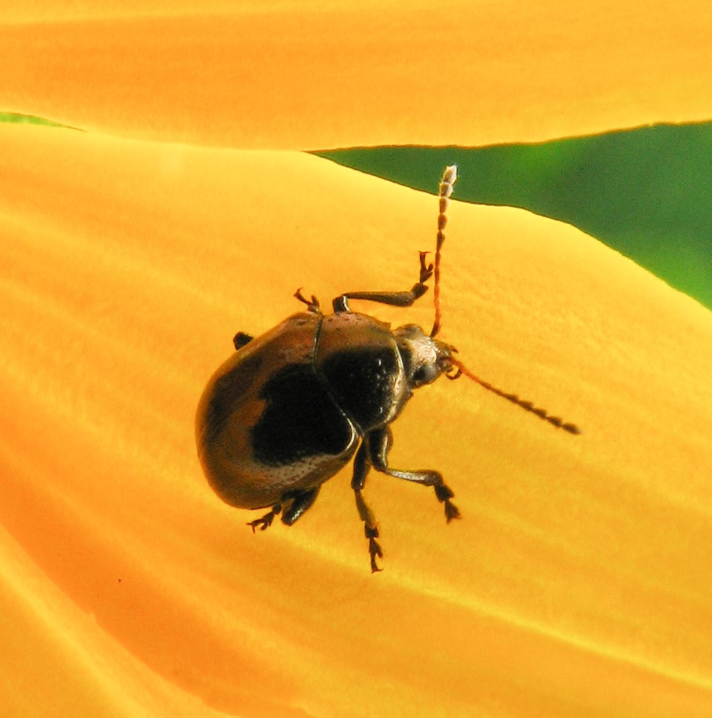 Rose leaf betle, Brachypnoea puncticollis. Pennypack Restoration Trust, Montgomery County, Pennsylvania, USA.